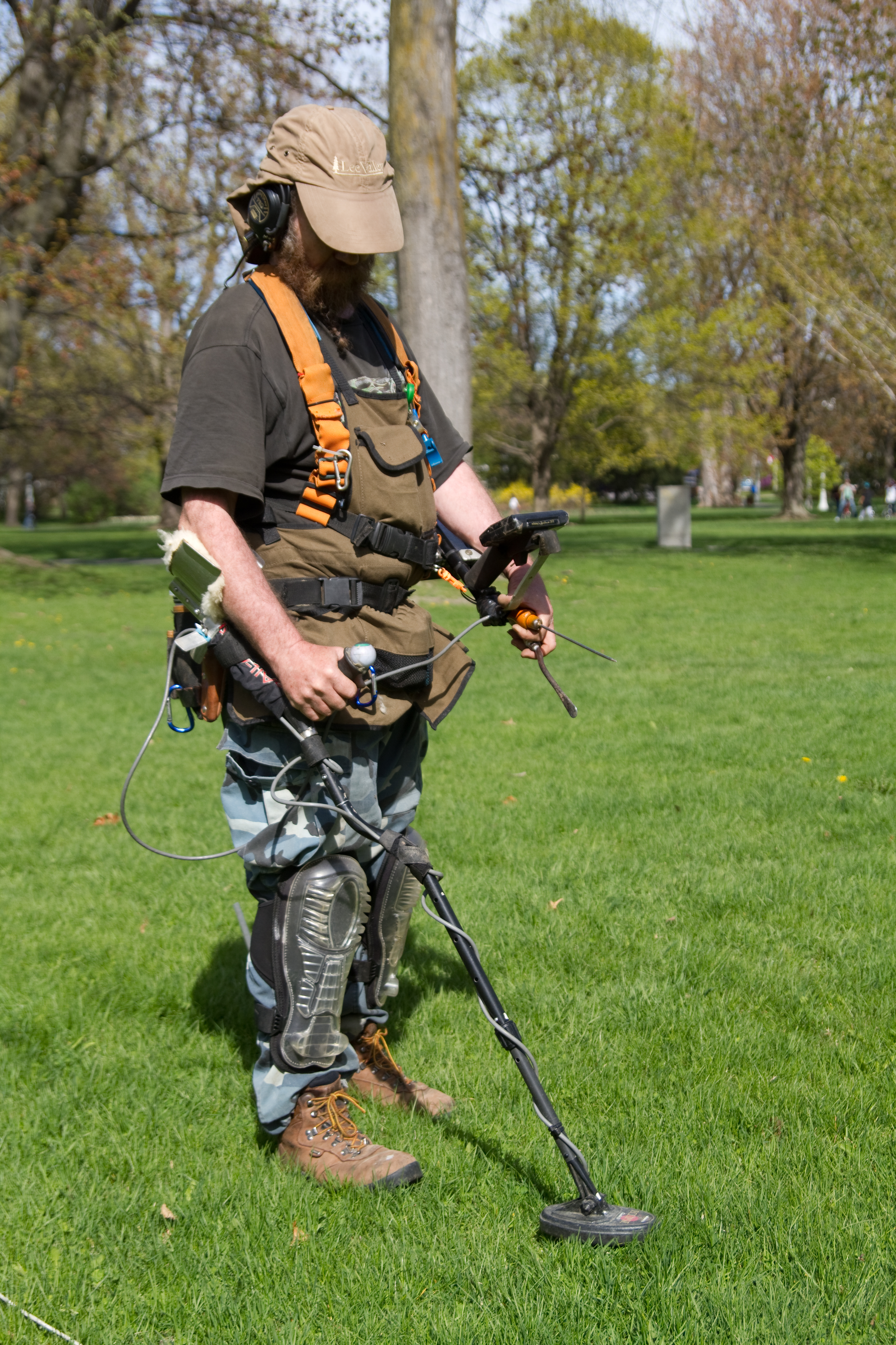 Man using a metal detector near Dow's Lake, Ottawa, Canada.